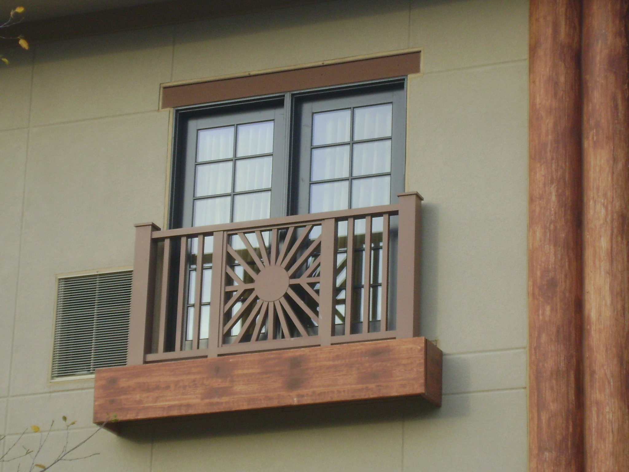 Juliet balcony exterior, a.k.a. French balcony